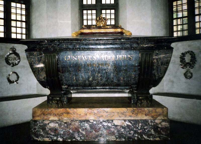 The grave of King Gustav II Adolph (1594-1632), as displayed on the ground floor of the Gustavian Chapel at Riddarholm ChurchPlace: Stockholm, Sweden